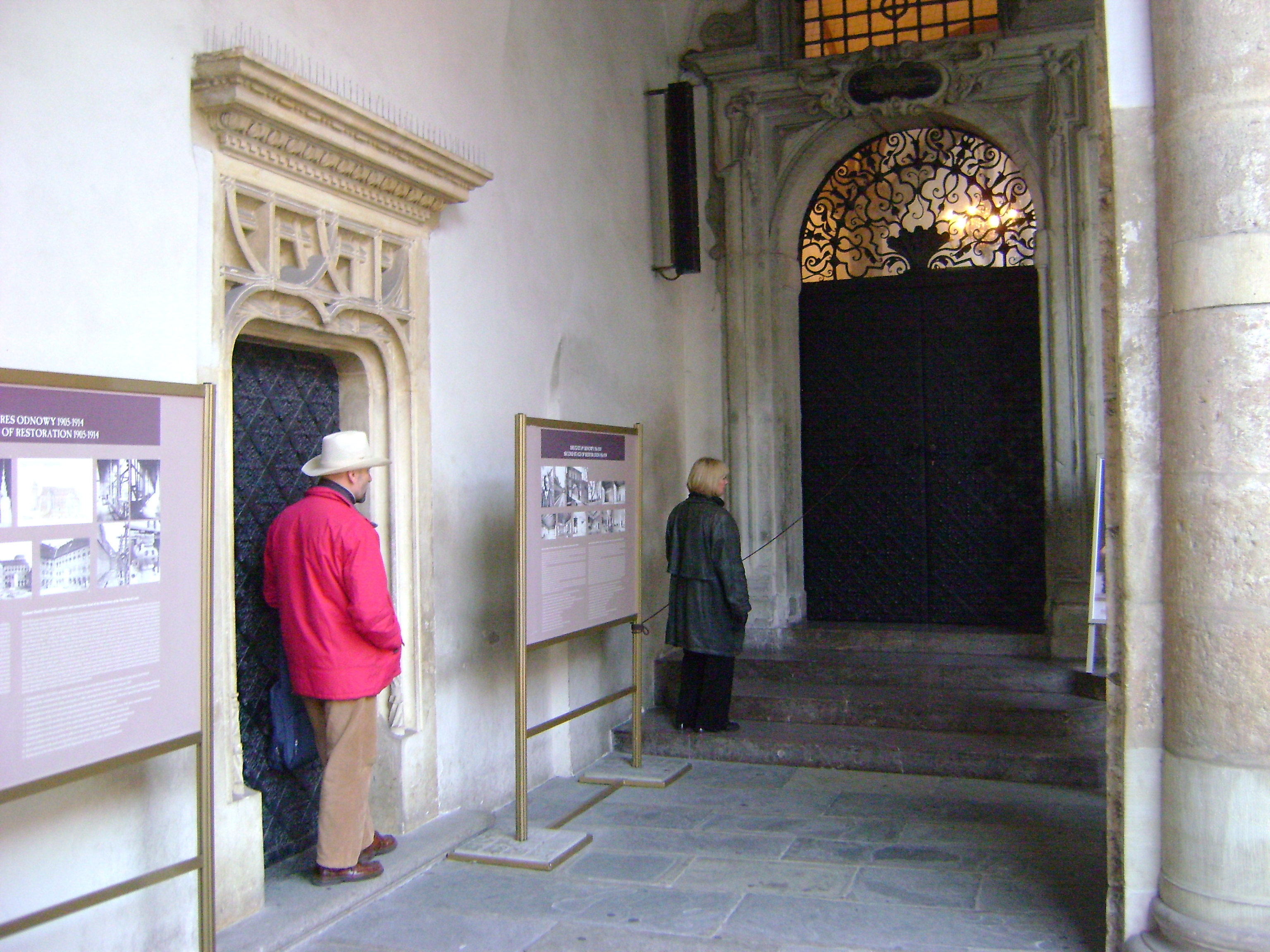 Wawel Chakra - energizing